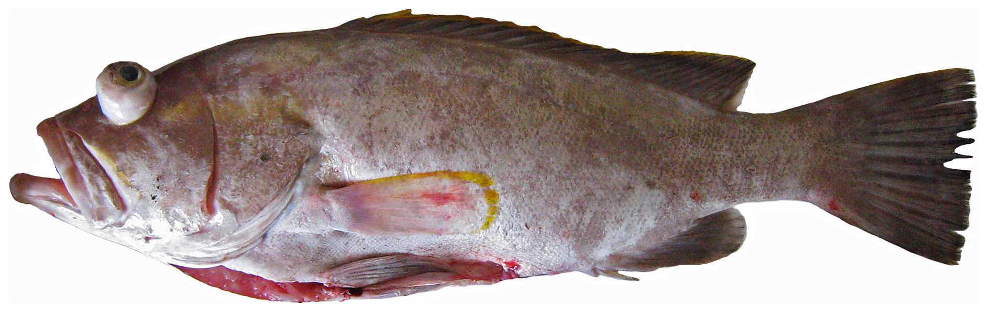 Epinephelus flavolimbatus Poey, 1865—yellowedge grouper, 652 mm SL. Photo by W Toller.